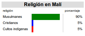 Graphic of the Mali's religions